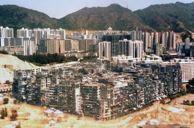 Kowloon Walled City, Hong Kong, photographed from an airplane